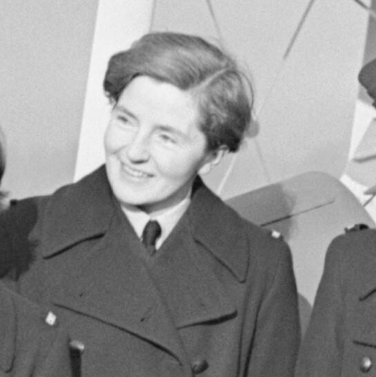 The Air Transport Auxiliary, 1939-1945. Pauline Gower (far left), Commandant of the Women's Section of the ATA, stands with eight other founding female ATA pilots at Hatfield, Hertfordshire, by newly-completed De Havilland Tiger Moths awaiting delivery to their units. The other pilots are; (left to right), Mrs Winifred Crossley, Miss Margaret Cunnison, The Hon. Mrs Margaret Fairweather, Mona Friedlander, Miss Joan Hughes, Mrs G Paterson, Miss Rosemary Rees and Mrs Marion Wilberforce.